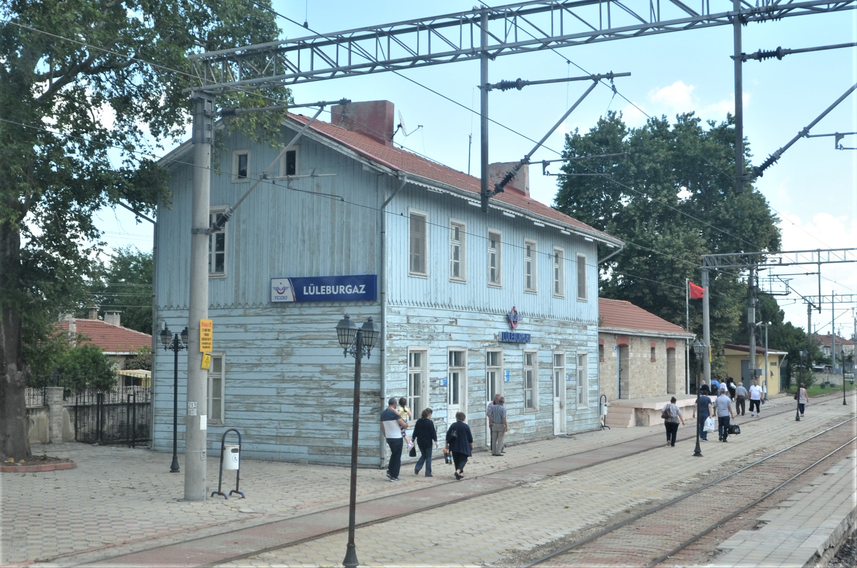 Lüleburgaz train station in Kırklareli Province, Turkey.